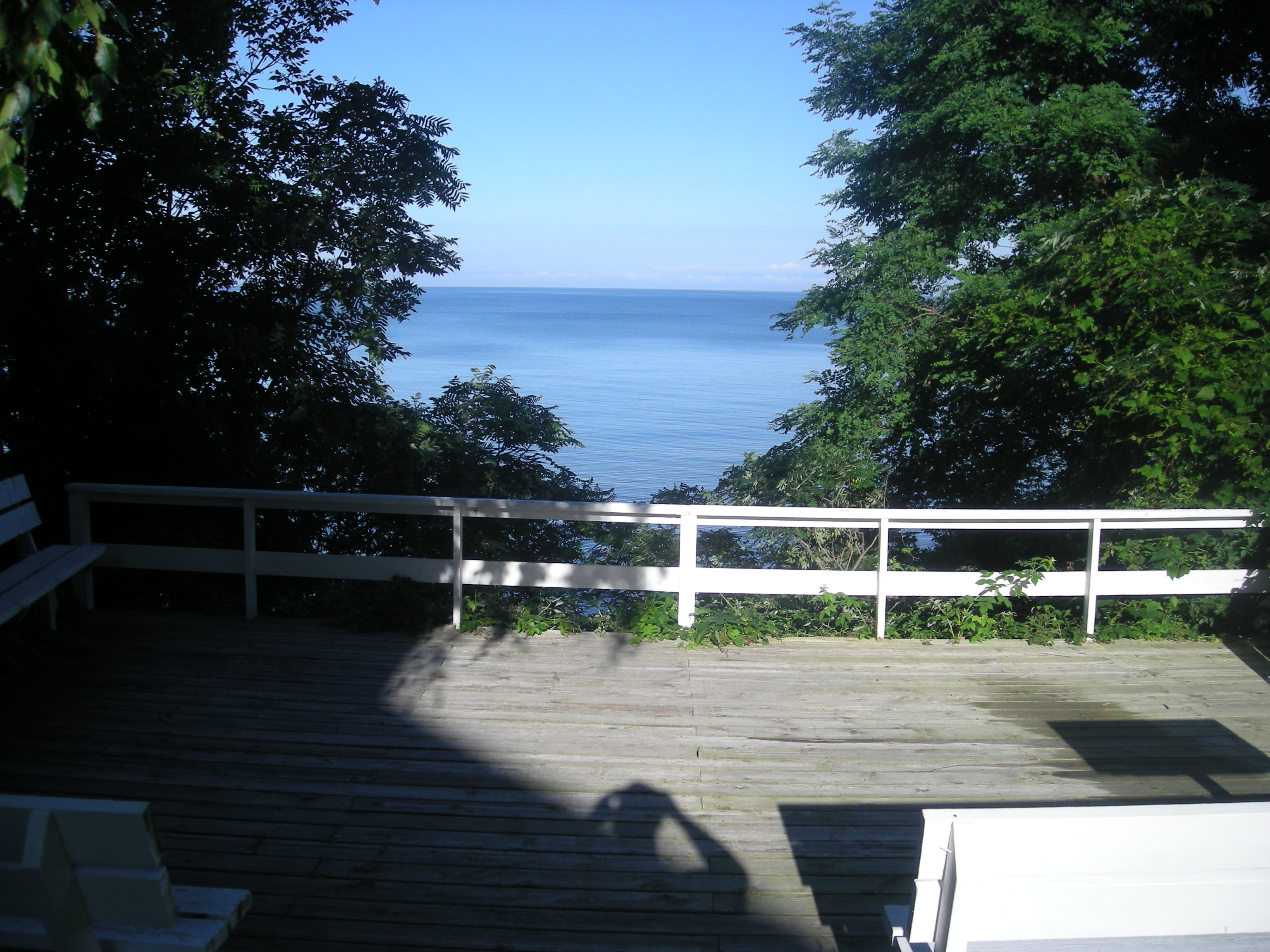 A deck at Michillinda Lodge in Whitehall, Michigan (United States).